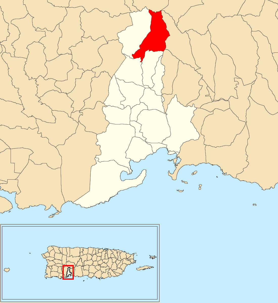 Jagua Pasto, Guayanilla, Puerto Rico locator map